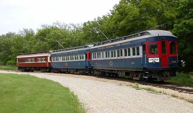 Chicago Aurora and Elgin interurban cars in operation in 2003. Photo by Frank Hicks